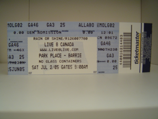 Self taken photo of Live 8 Canada tickets